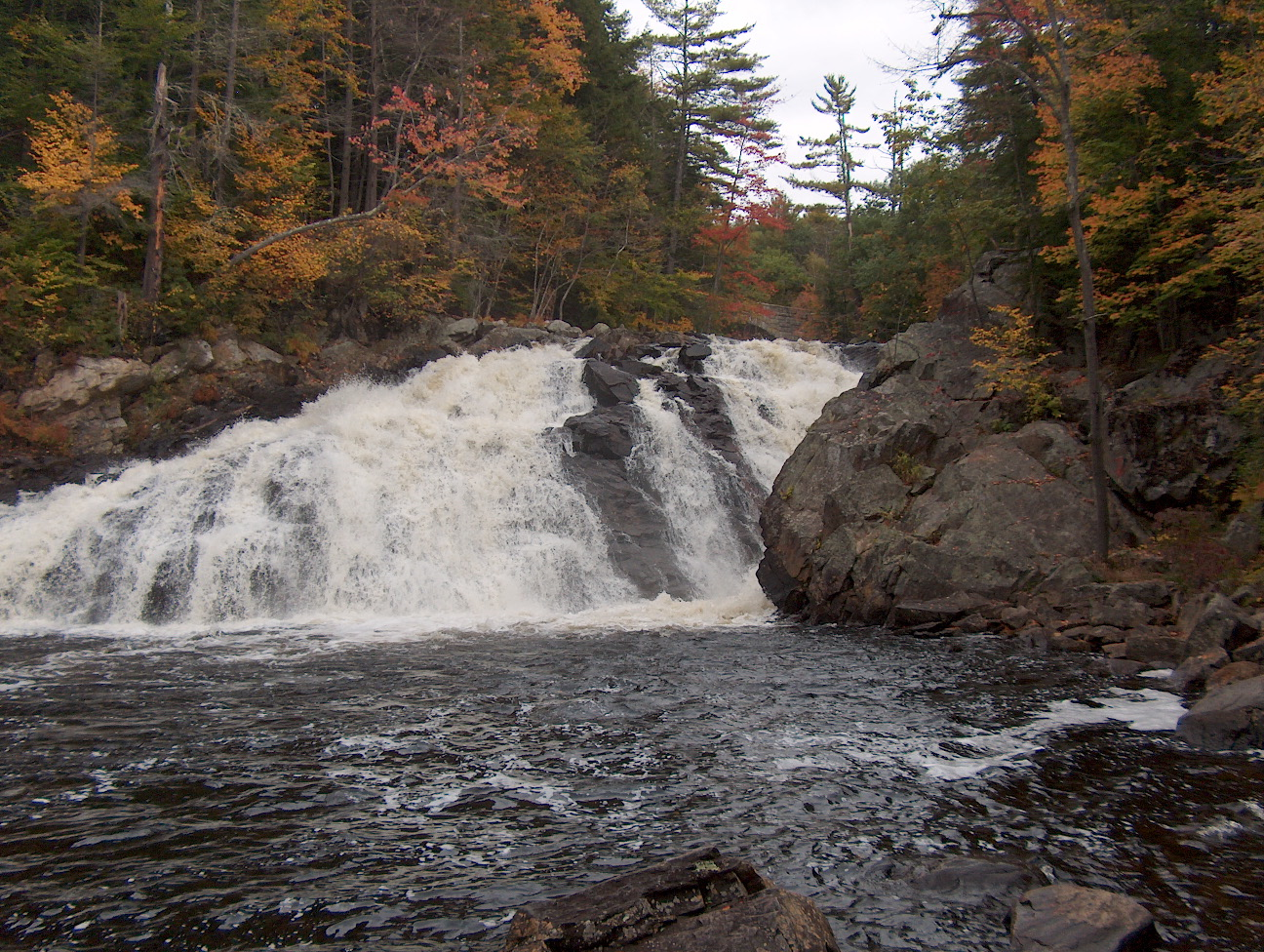 Profile Falls on the Smith River near Bristol, New Hampshire. Photo by Ken Gallager, Oct. 4, 2008.